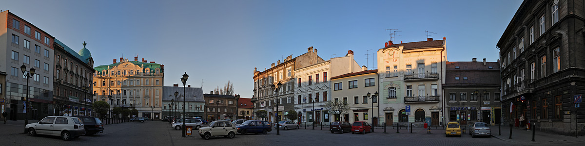 Panoramic view of Wolności Square in Bielsko-Biała, Poland.